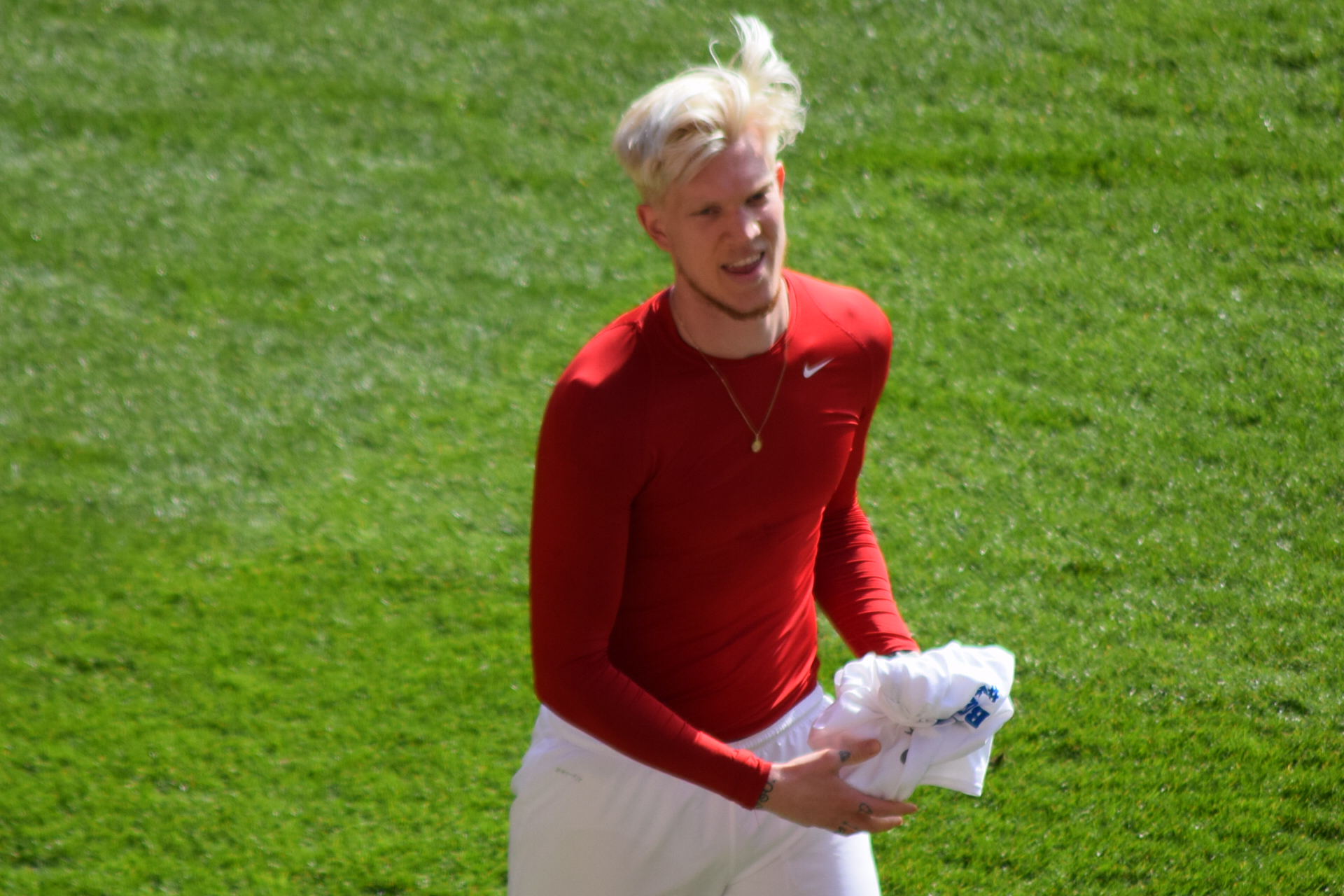 Simon Makienok